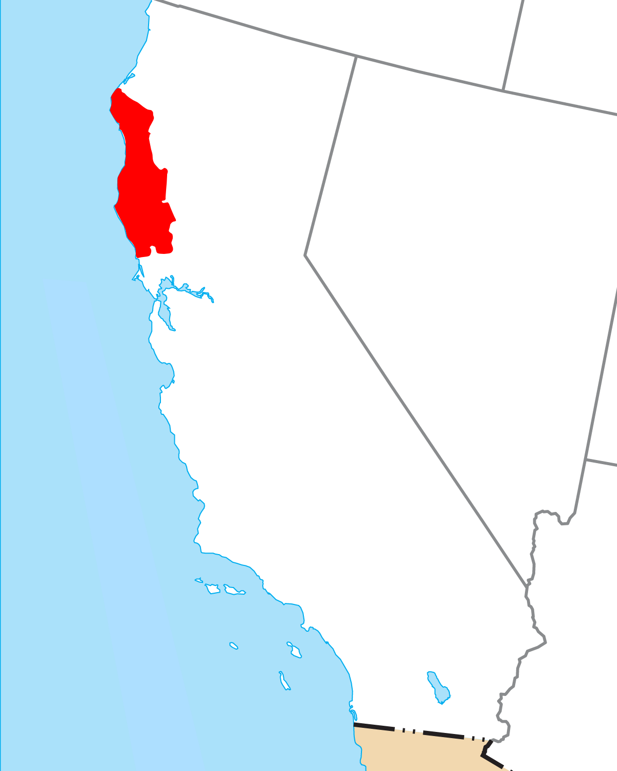 Description: Distribution of Taricha rivularis Image created by: Noah Elhardt and Cynops